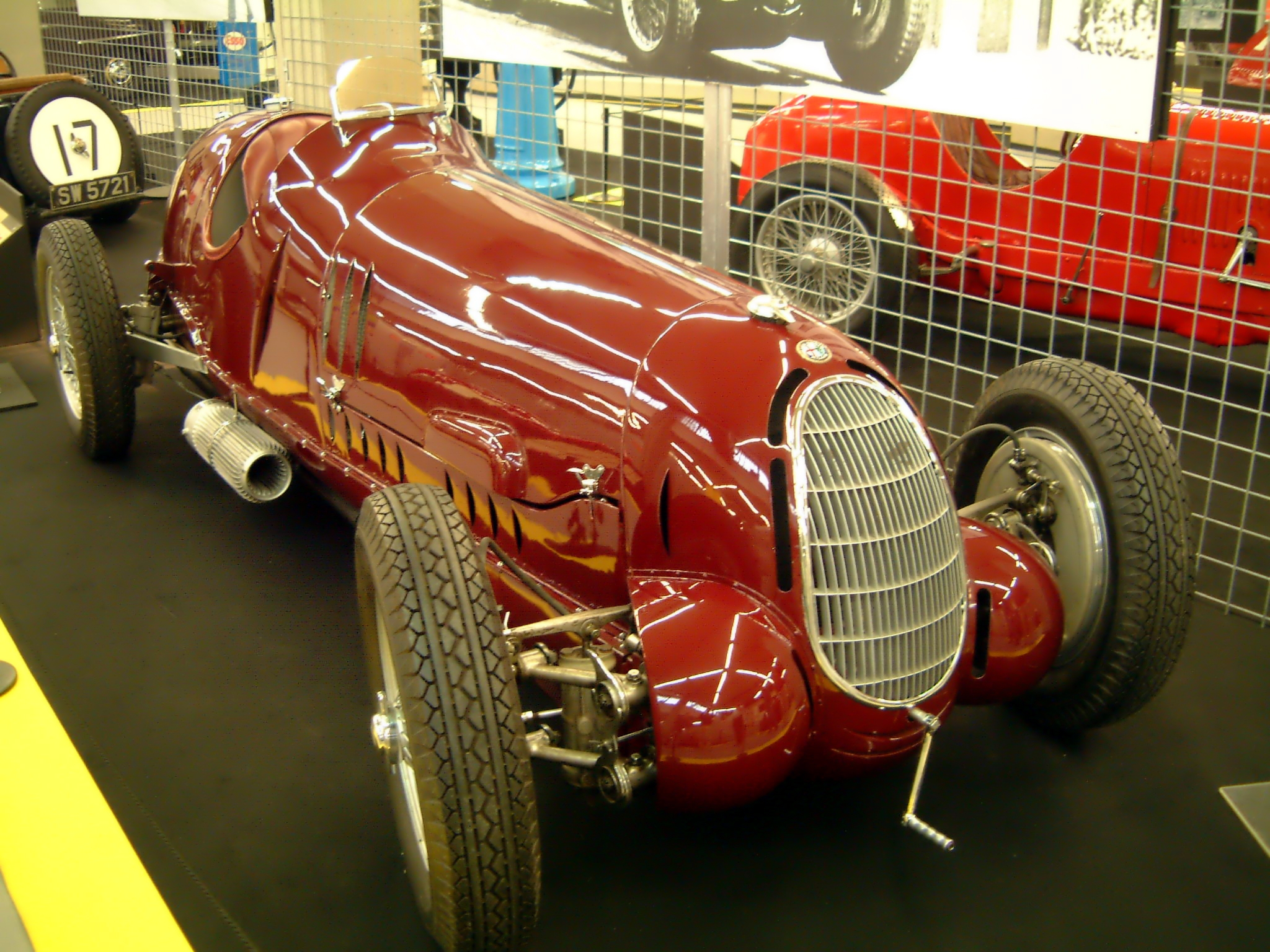 Front view of a 1936 Alfa Romeo 12C.